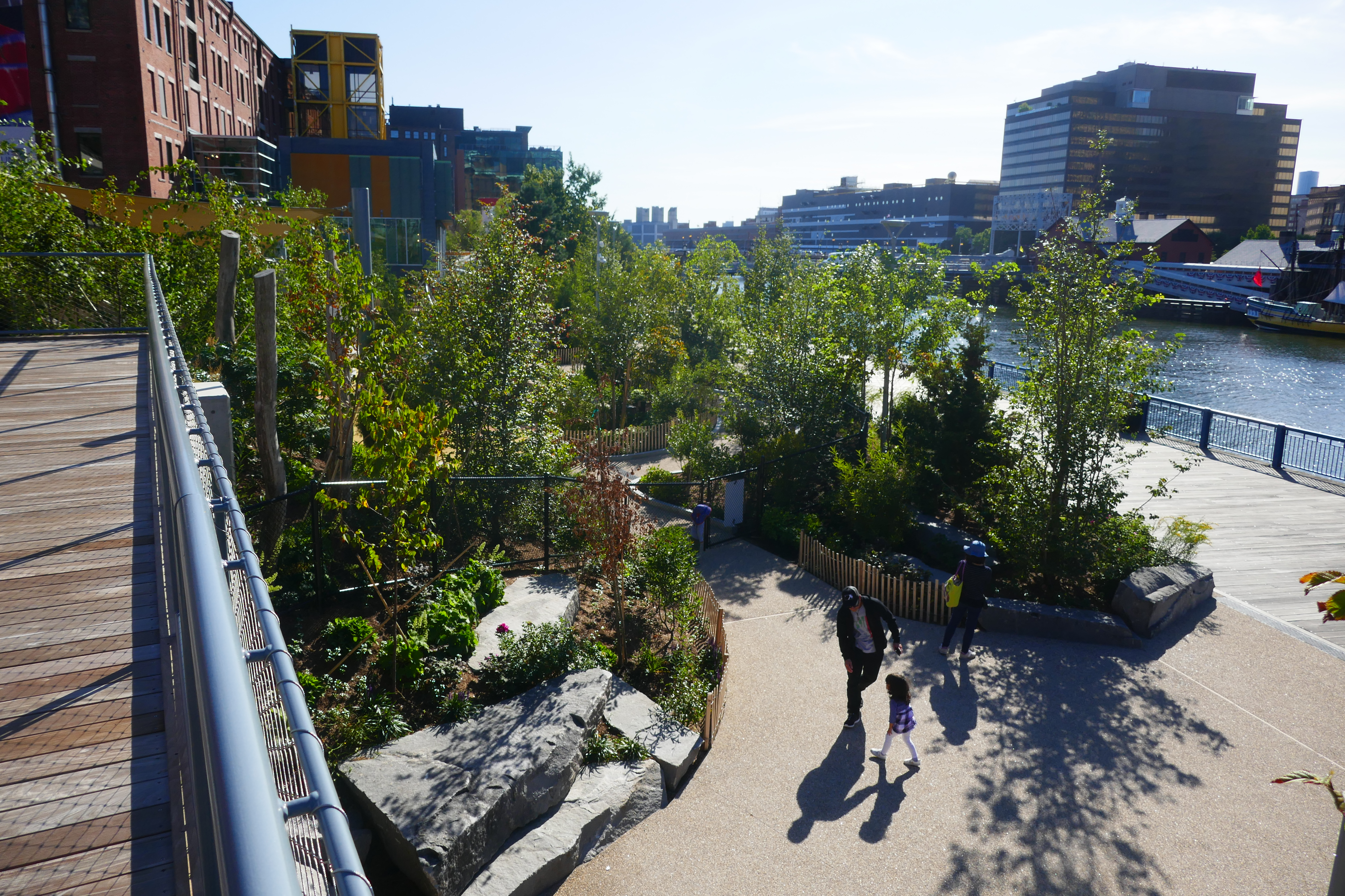 Martin's Park on Fort Point Channel was created by the Martin Richard Foundation in memory of the youngest victim of the 2013 Boston Marathon bombings.